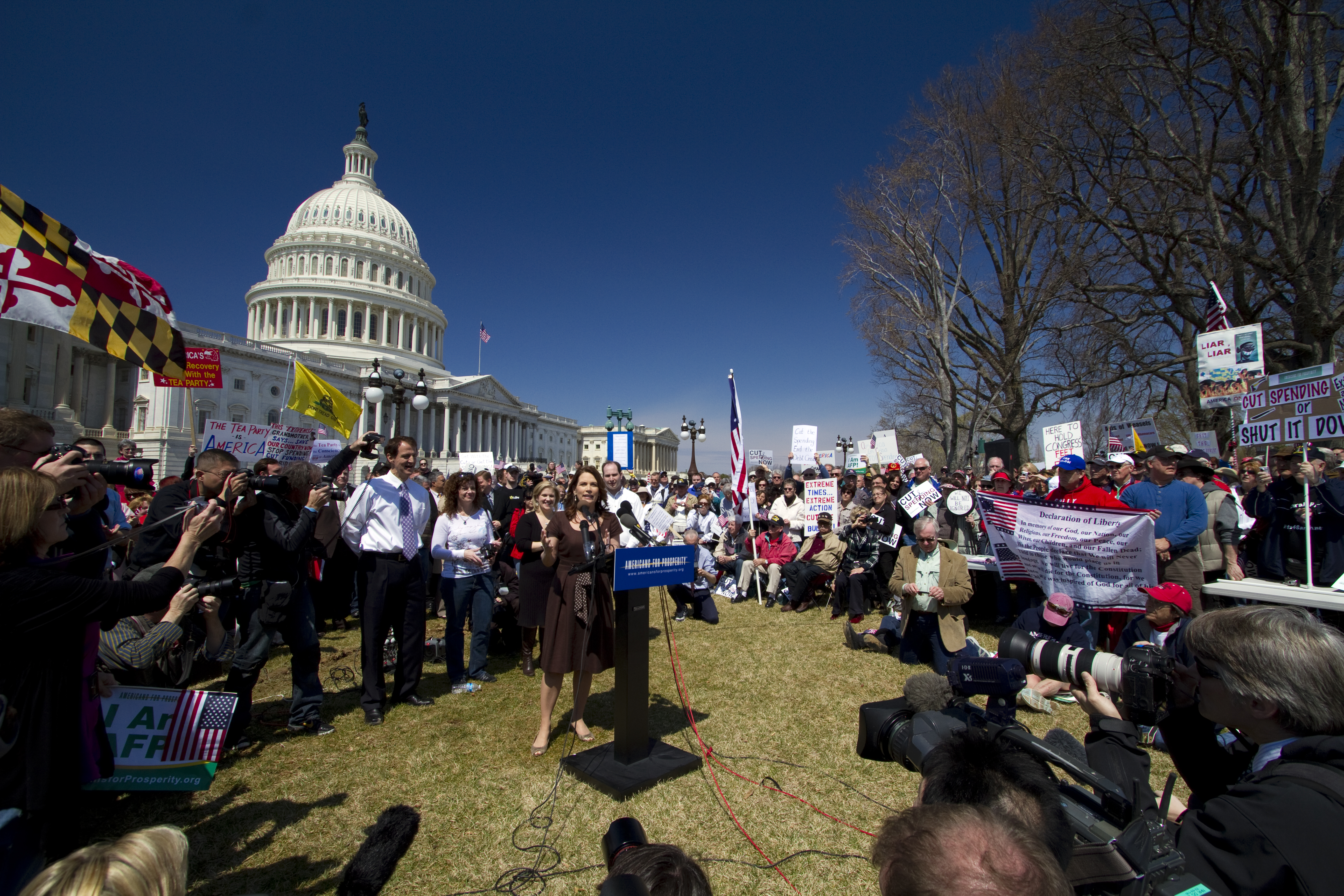 Michelle Bachman speaking at the "Cut the spending now" rally at the US Capitol in Washington DC on April 6 2011 sponsored by Americans for Prosperity.